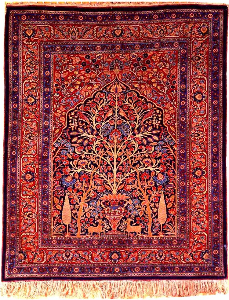 Agajli rug, Tebriz school, XIX c.